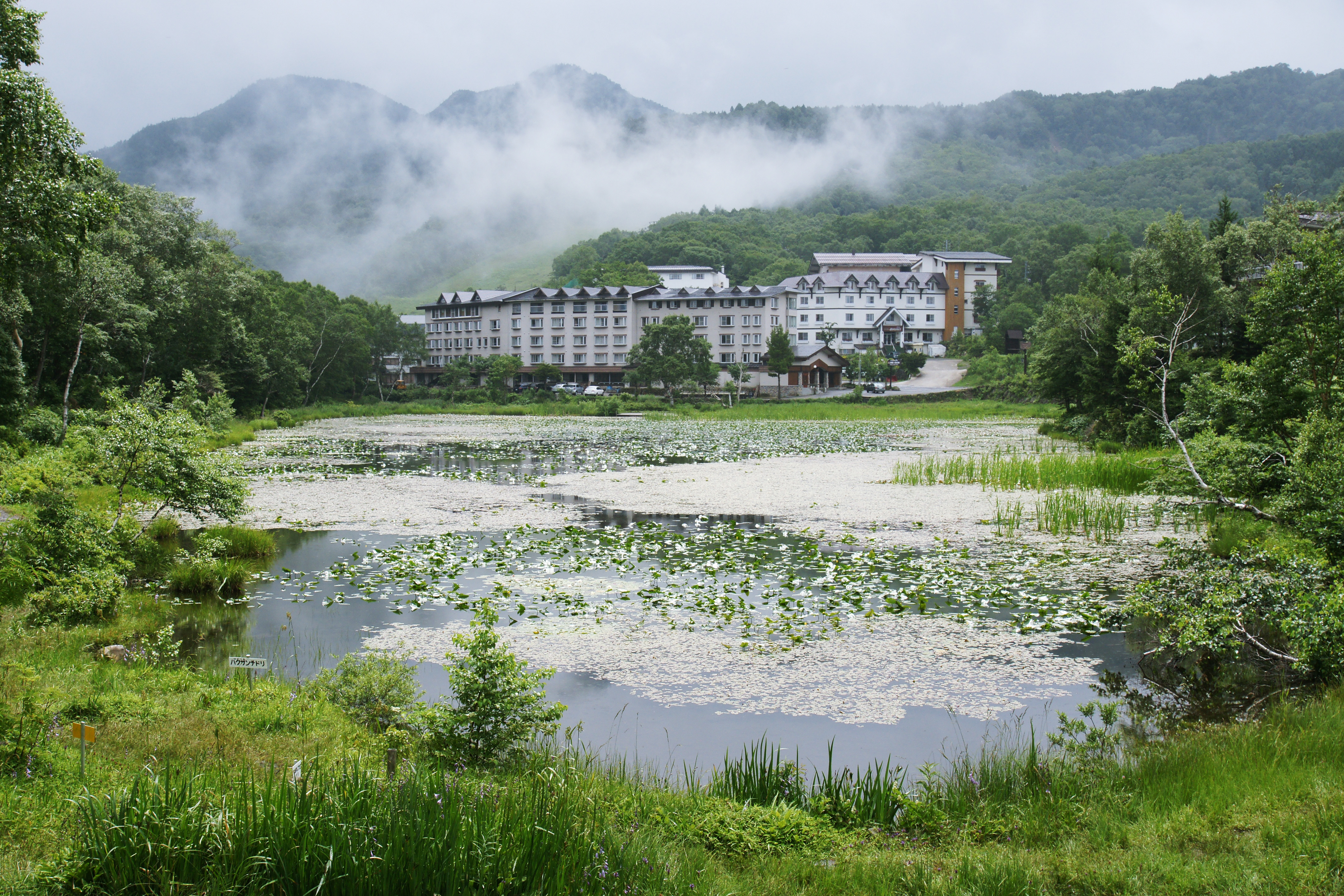 Hasuike in Shiga Kogen, Yamanouchi, Nagano prefecture, Japan.